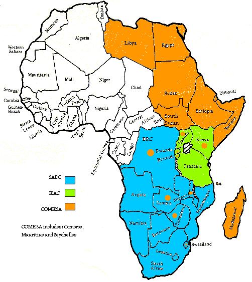 Map of Africa showing the 3 regional blocs included in the GFTA SADC EAC COMESA